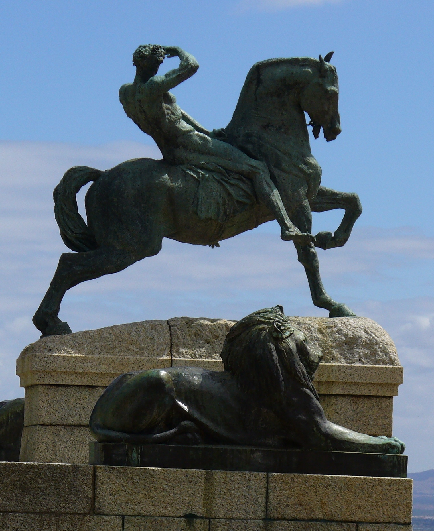 "Energy" Rhodes Memorial. Statue by George Watts